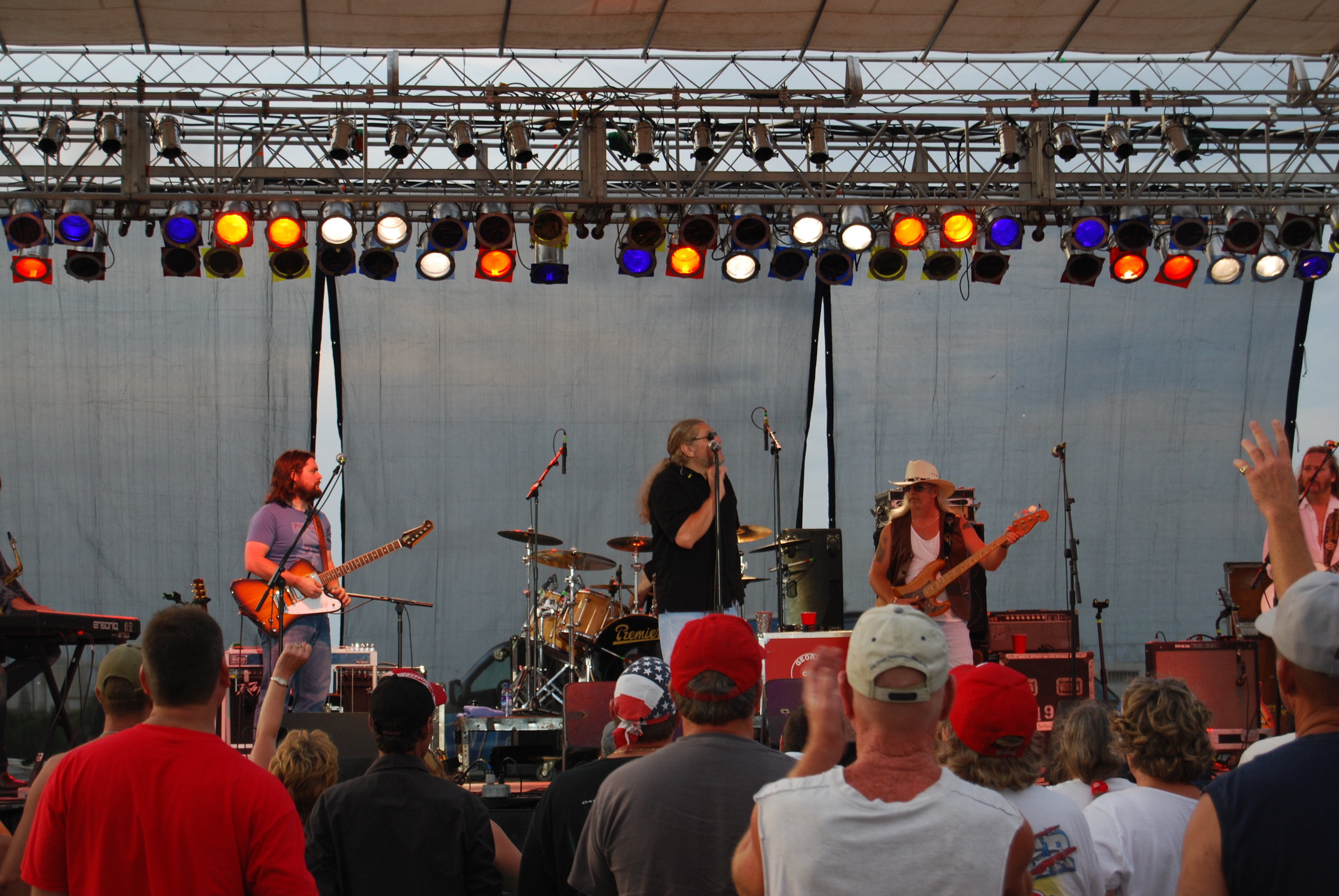 Southern rockers Marshall Tucker Band in concert